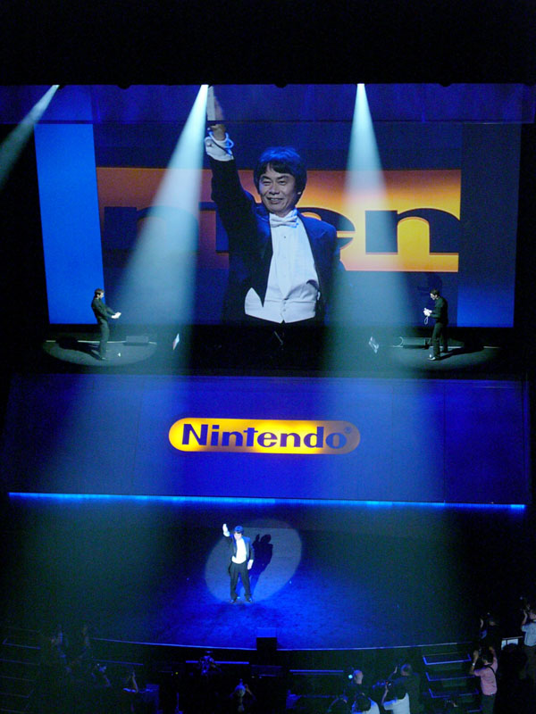 this year, Nintendo's genie took to the stage dressed as a conductor